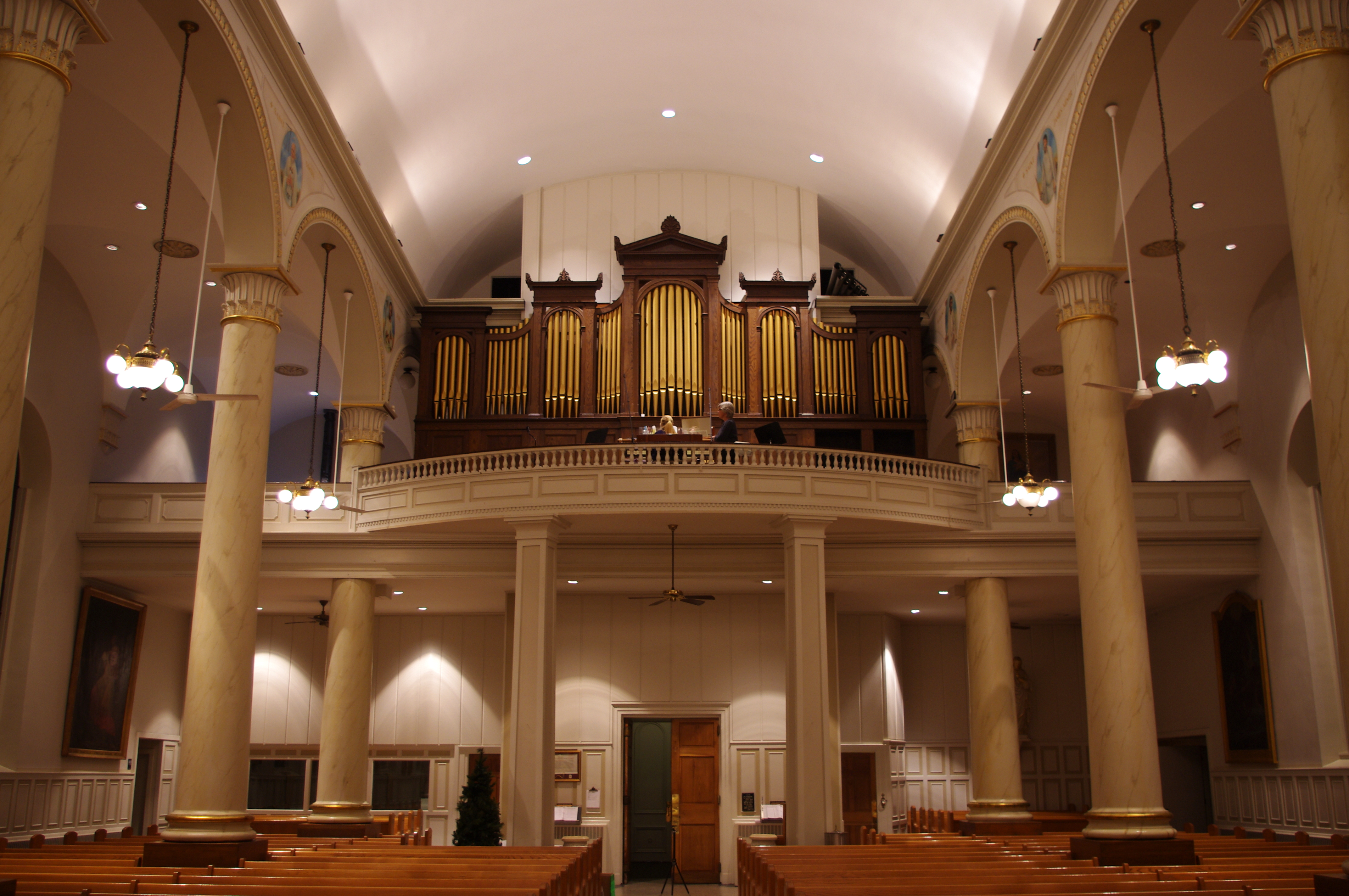 Basilica of Saint Joseph Proto-Cathedral (Bardstown, Kentucky), interior, rear of the nave during an organ lesson